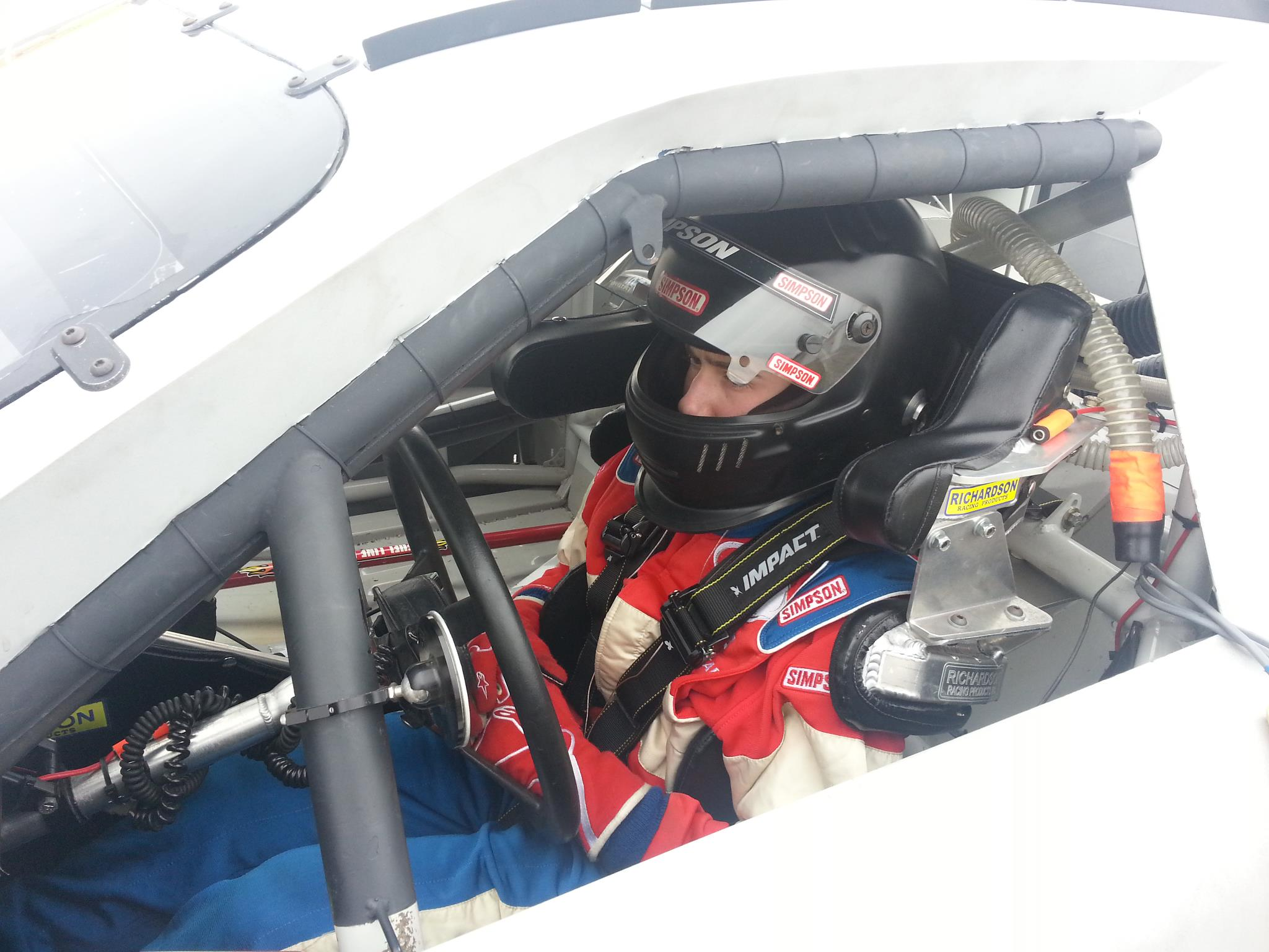 Kyle Weatherman prepares to test at Rockingham